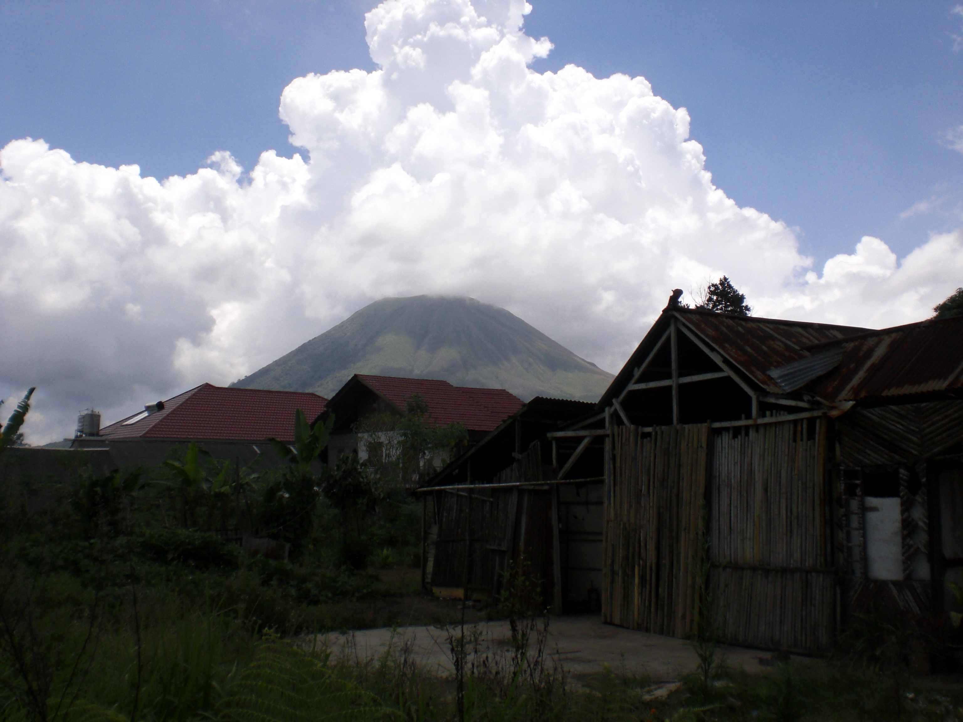 Mount Lokon, North Sulawesi, Indonesia